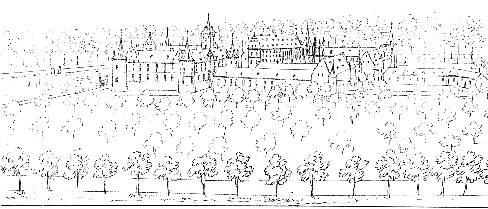 Alden Biesen Castle, southern aspect, around 1740